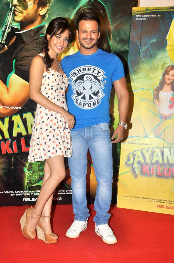 Neha Sharma, Vivek Oberoi at the Promo launch of 'Jayanta Bhai Ki Luv Story'